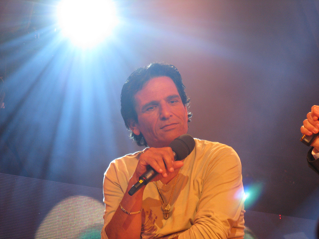 Finalist Yossi Boublil